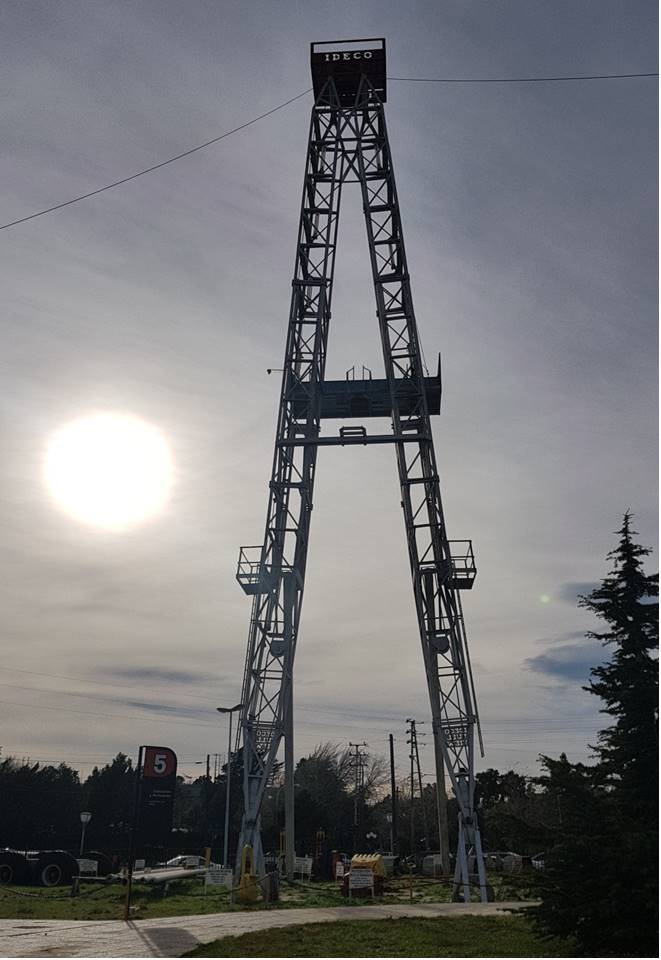 Torre de perforación exhibida en el Museo del Petróleo, Comodoro Rivadavia. La misma se utiliza para realizar perforaciones de entre 800 y 6000 metros de profundidad en el subsuelo, tanto de pozos de gas, agua o petróleo. También se emplean para sondeos de exploración para analizar la geología y buscar nuevos yacimientos. Museo Nacional del Petroleo, Comodoro Rivadavia